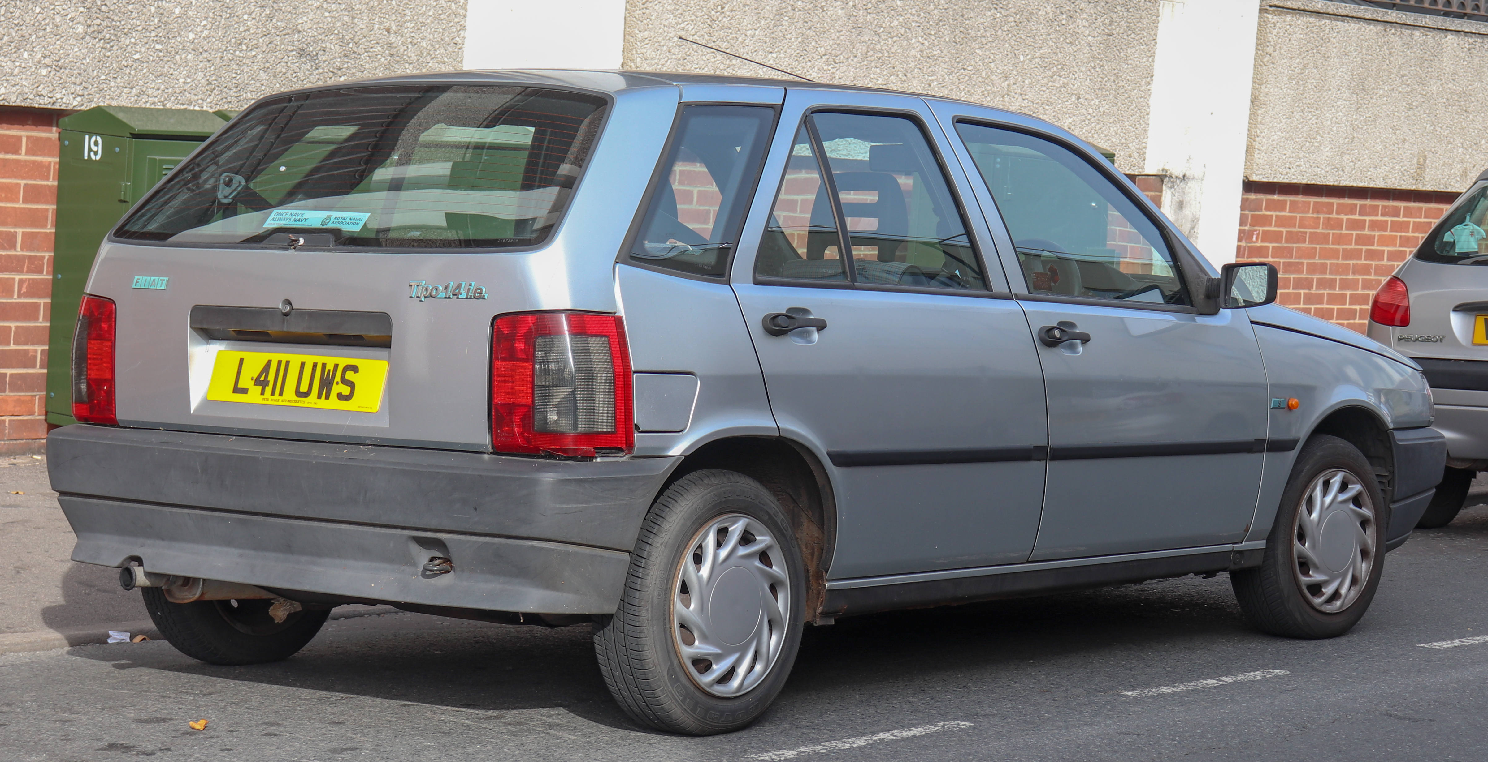 1994 Fiat Tipo S IE 1.4 Rear Taken in Leamington Spa